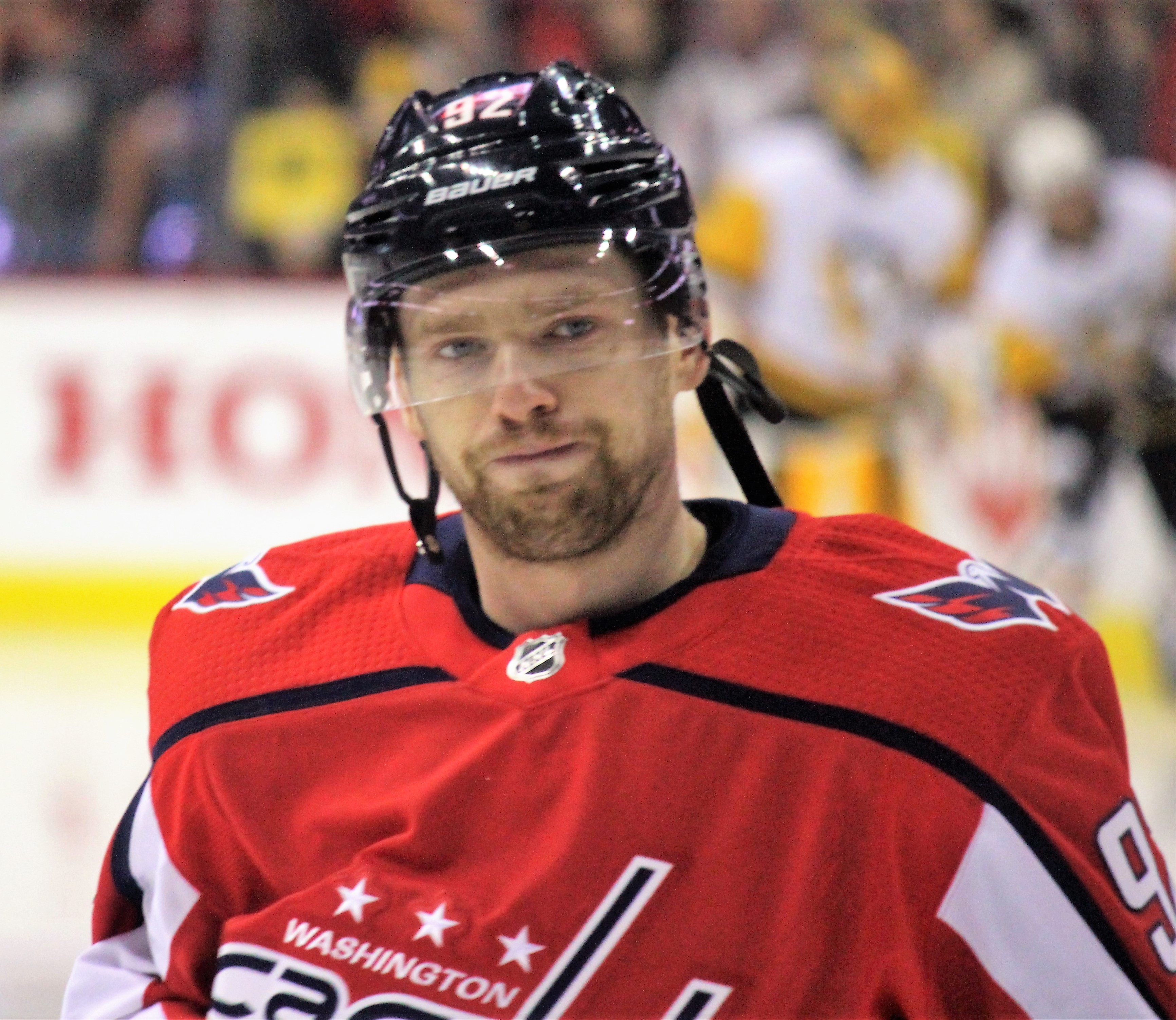 Washington Capitals forward Evgeny Kuznetsov during game 2 of the Eastern Conference Semifinals series against the Pittsburgh Penguins, April 29, 2018, at Capital One Arena in Washington, D.C.